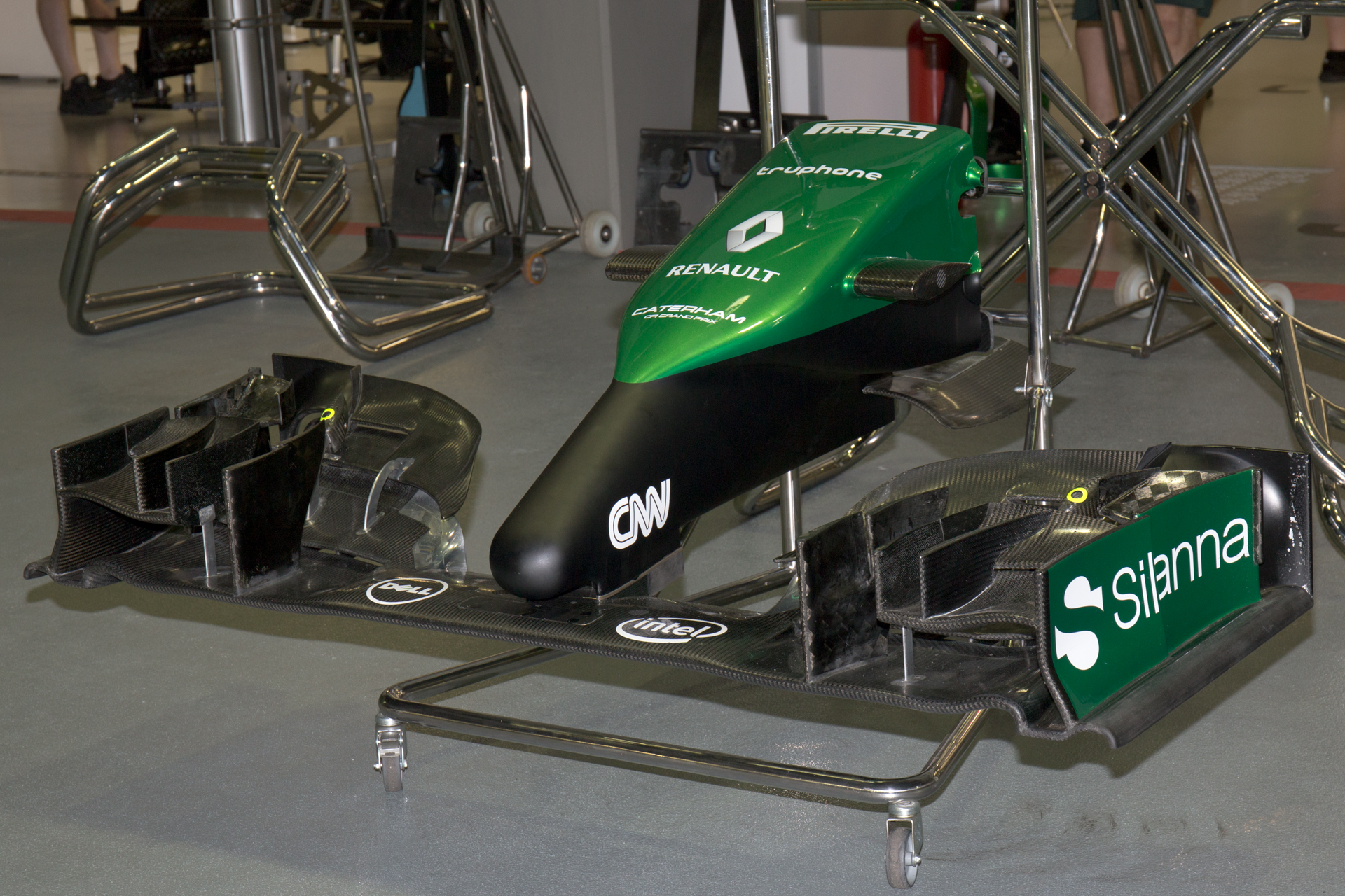 Formula One 2014 Rd.14 Singapore GP: Caterham CT05's front twin-noses